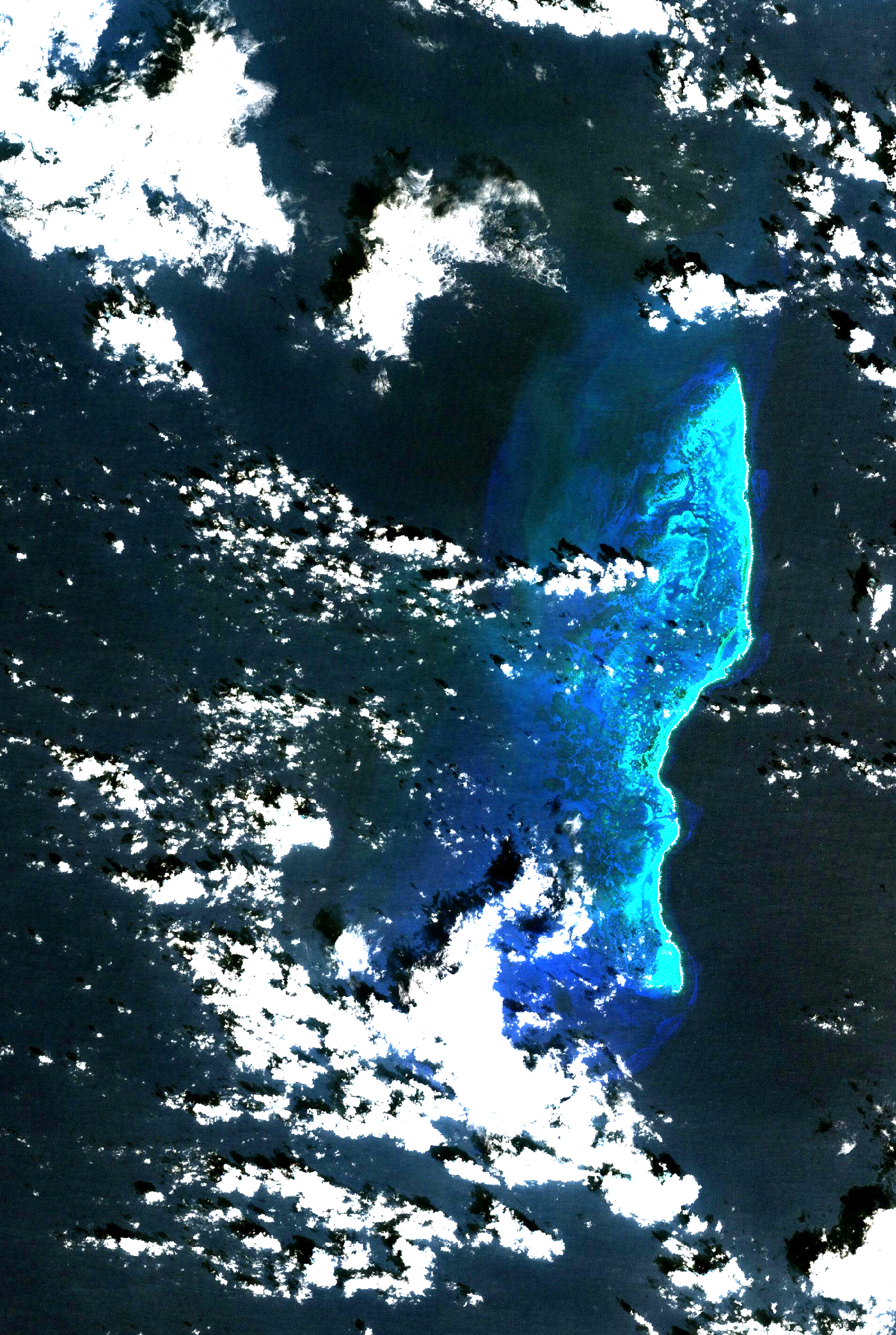 Landsat satellite image of Quitasueño Bank, San Adrés Archipelago, Caribbean Sea, Colombia 70 percent brightness and 70 percent contrast added